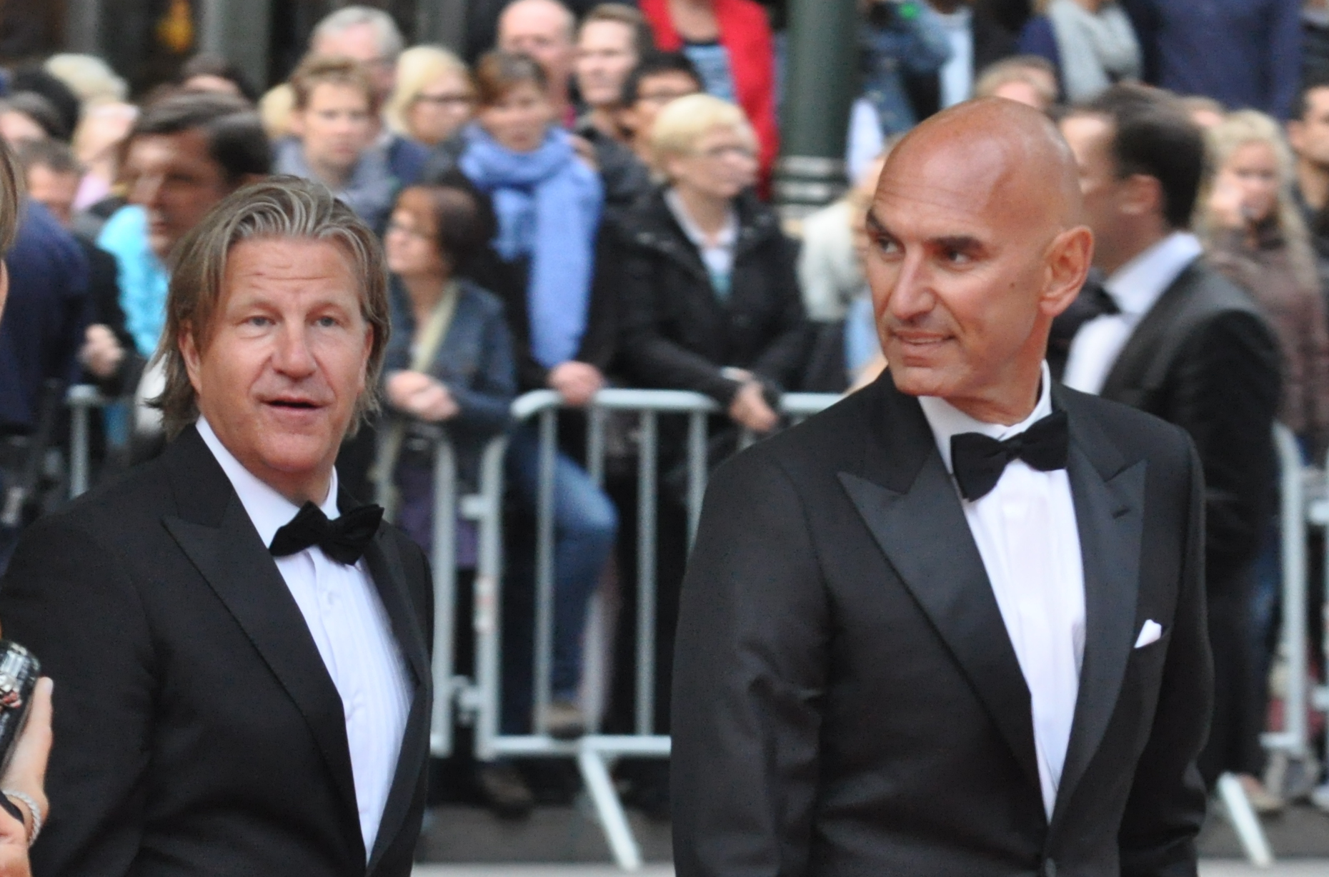 Wedding of Victoria, Crown Princess of Sweden, and Daniel Westling; Arrival of members for the Gouvernment and Swedish and foreign guests of hounour to the Riksdag's Gala Performance at Konserthuset. Singer-songwriter Mikael Bolyos (husband of Marie Fredriksson) to the right.